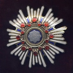 Star of the Japanese Order of the Sacred Treasure